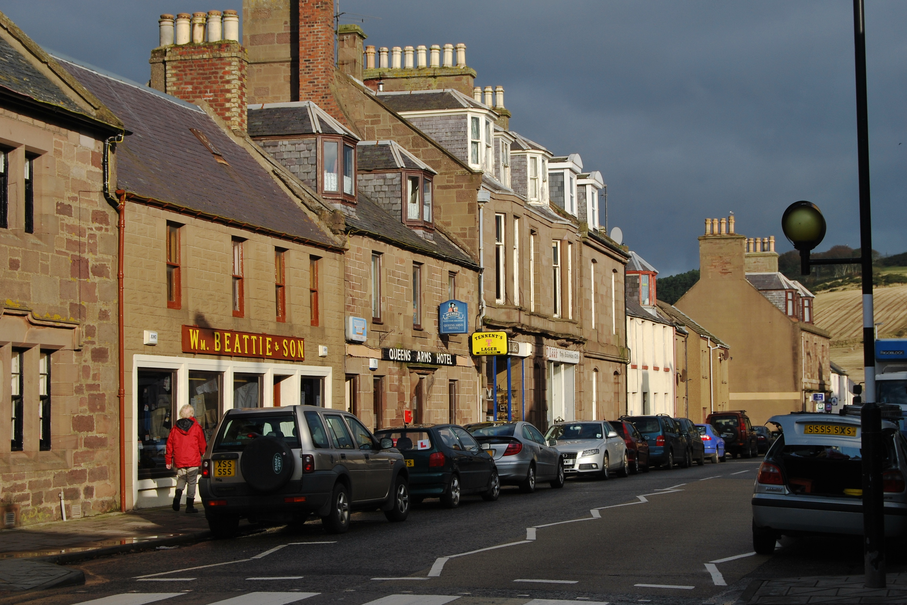 Inverbervie High Street Scotland